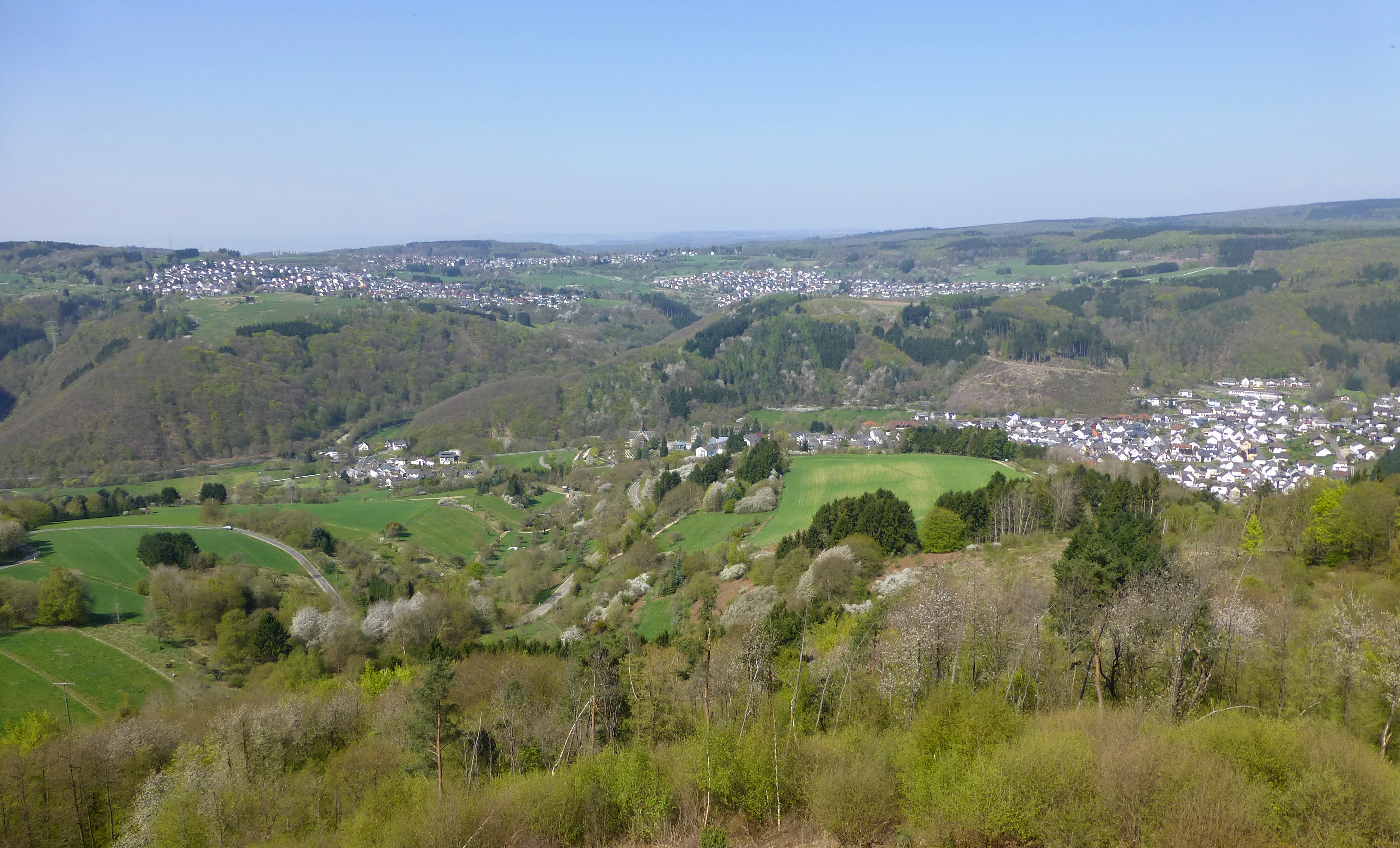 Arzbach viewed from the Grosser Kopf and the Roman Tower construction. Villages Eitelborn and Kadenbach in distance.